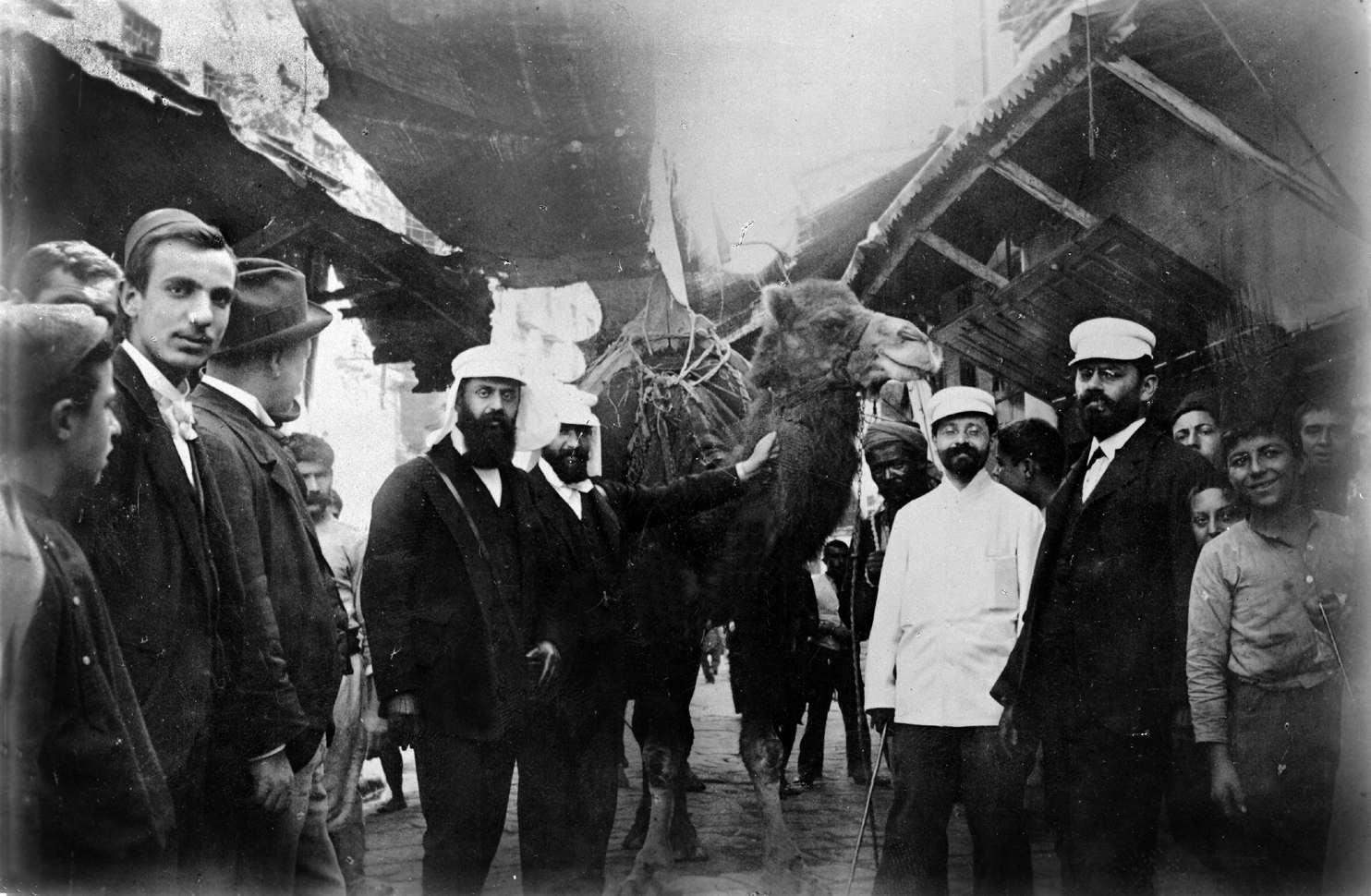 Herzl\'s visit to Israel. On the first days of the journey to Palestine Herzl and the members of the delegation pass by the Turkish port-city of Izmir,taking a picture with a camel in the streets of the city.